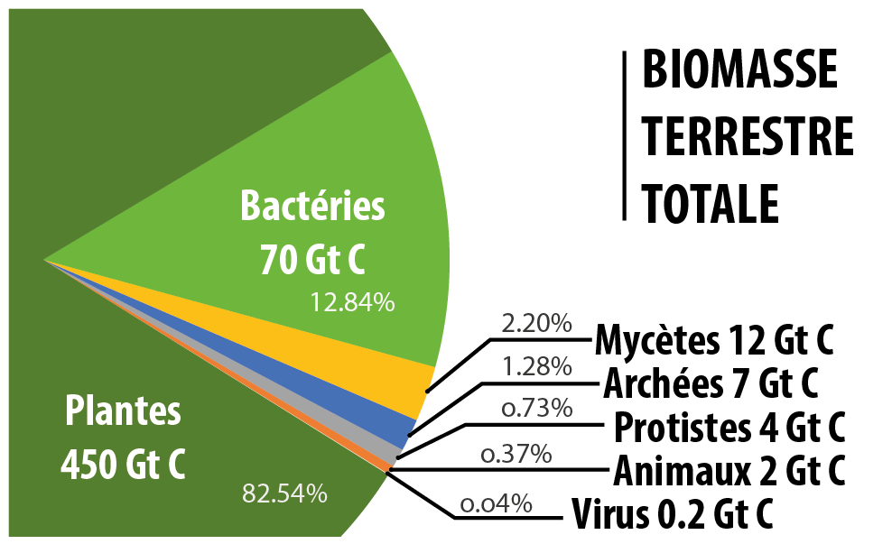 World Biomass in Giga tons of carbon, data used to make graph from: Bar-On, Yinon M., Rob Phillips, and Ron Milo. "The biomass distribution on Earth." Proceedings of the National Academy of Sciences 115.25 (2018): 6506-6511.